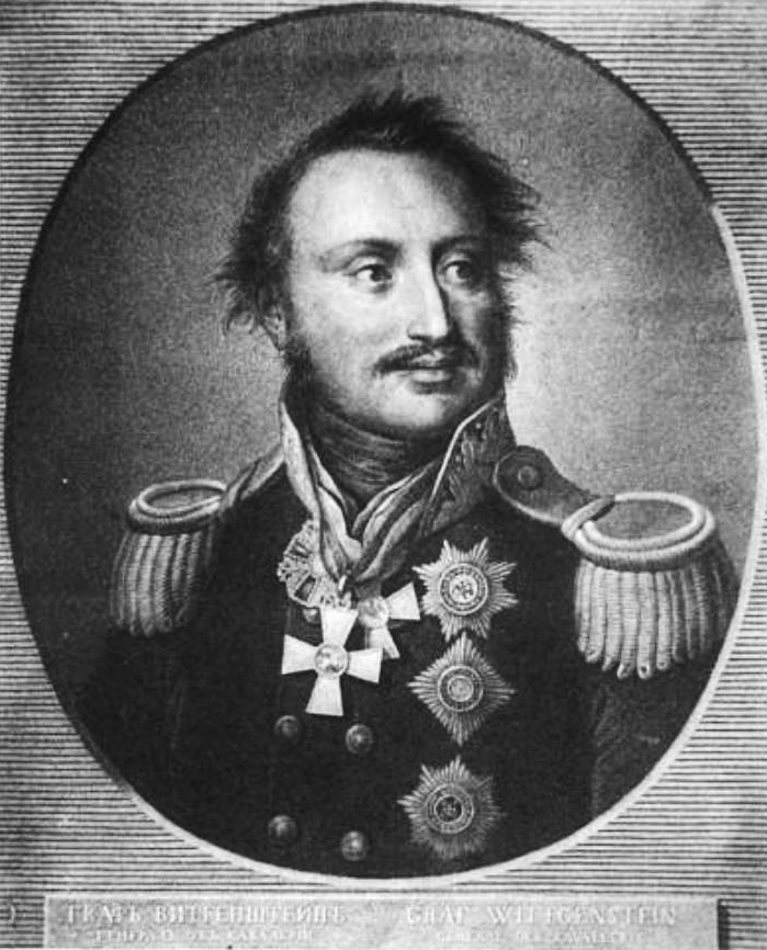 Portrait of Count Peter Wittgenstein from a copper-plate engraving published in Neumann, Wilhelm (1895). Karl August Senff: ein baltischer Kupferstecher. Reval: F. Kluge.